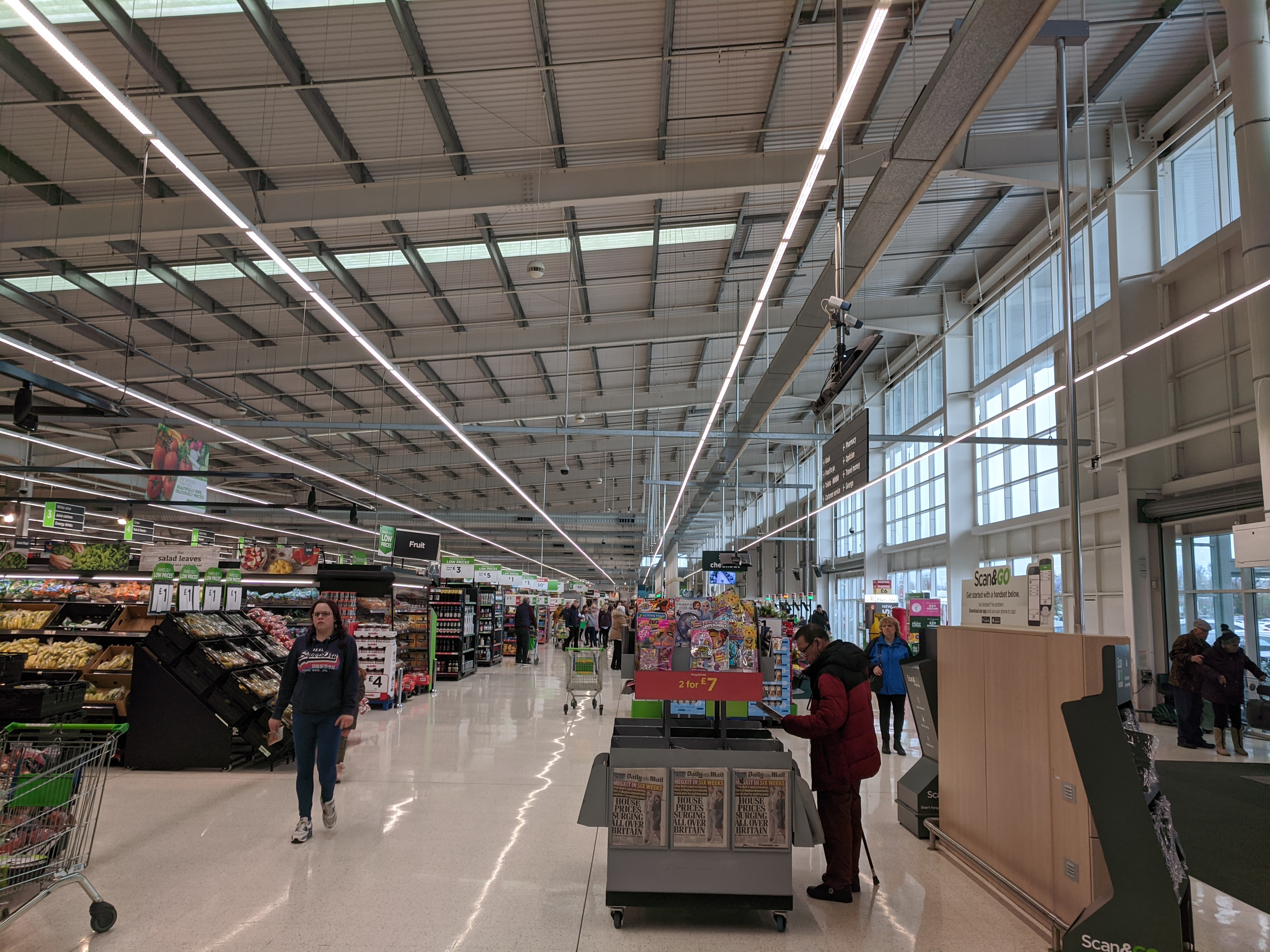 Interior of ASDA Walmart Supercentre Milton Keynes, the largest ASDA superstore, taken on 20 Feb 2020.